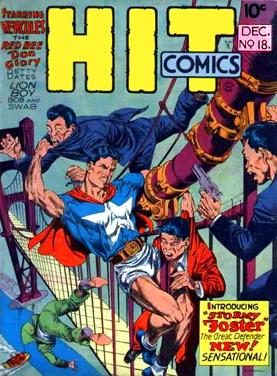 Cover, Hit Comics #18, Quality Comics (defunct co.), December 1941, art by Reed Crandall. Depicts Stormy Foster, The Great Defender